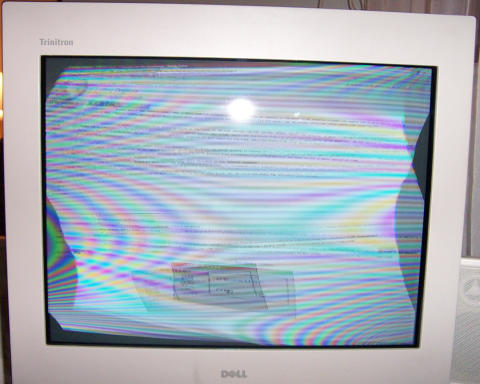 A degauss in progress on a Dell Ultra Scan P991.